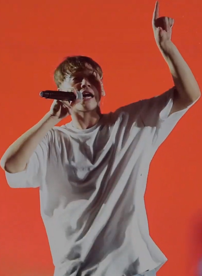 Paulo Londra in concert. (circa 0:01